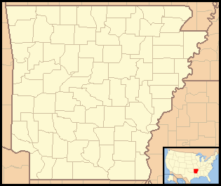 Locator Map of Arkansas, United States